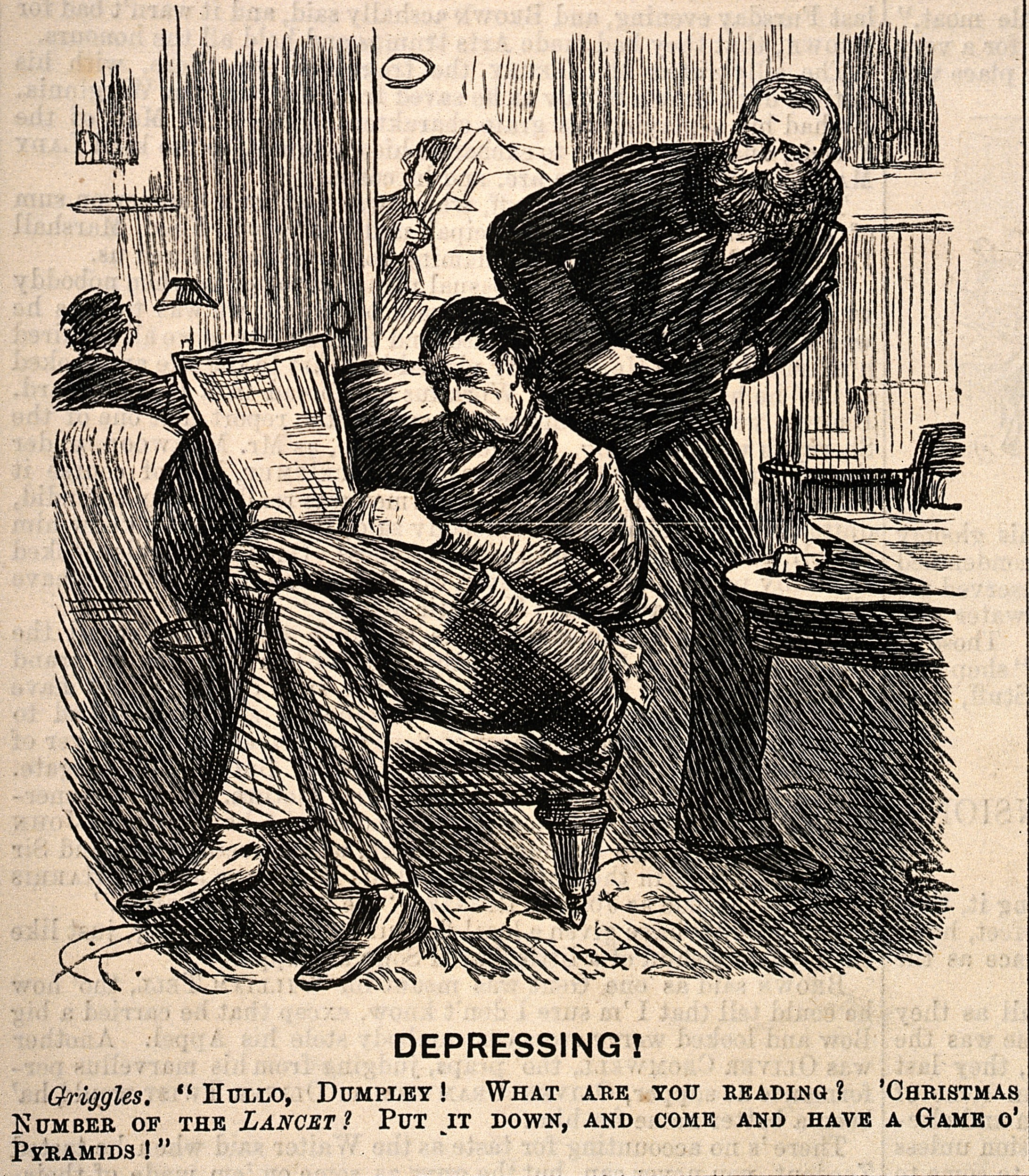 A man reading the 'Lancet' in a gentleman's club, a friend states it is boring, and suggests they play a game. Wood engraving by C. Keene, 1883. Iconographic Collections Keywords: Charles Keene